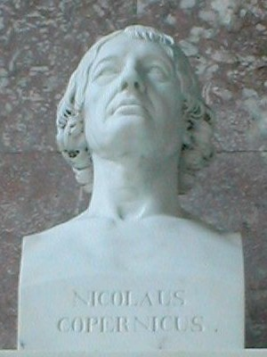 Nicolaus Copernicus bust, created in 1807 by Johann Gottfried Schadow, in the German Walhalla temple near Regensburg.